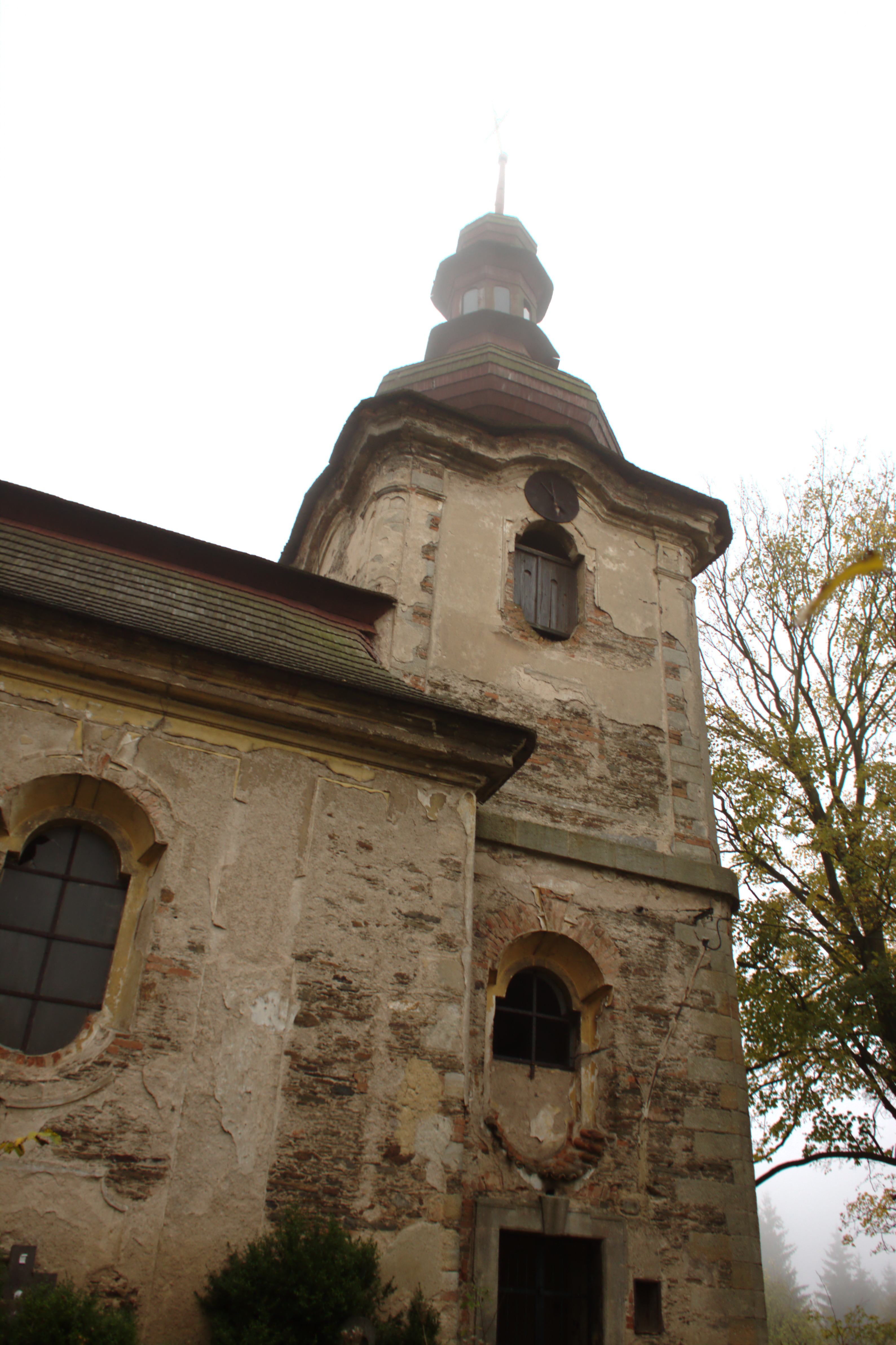 Church tower in Komárov near Toužim, Karlovy Vary Region, CZ